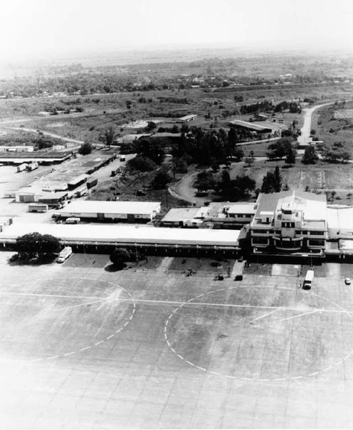 Tocumen Airport, Panama. F.A.P. Terminal, viewed from the west, after the US-Invasion in Panama 1990.